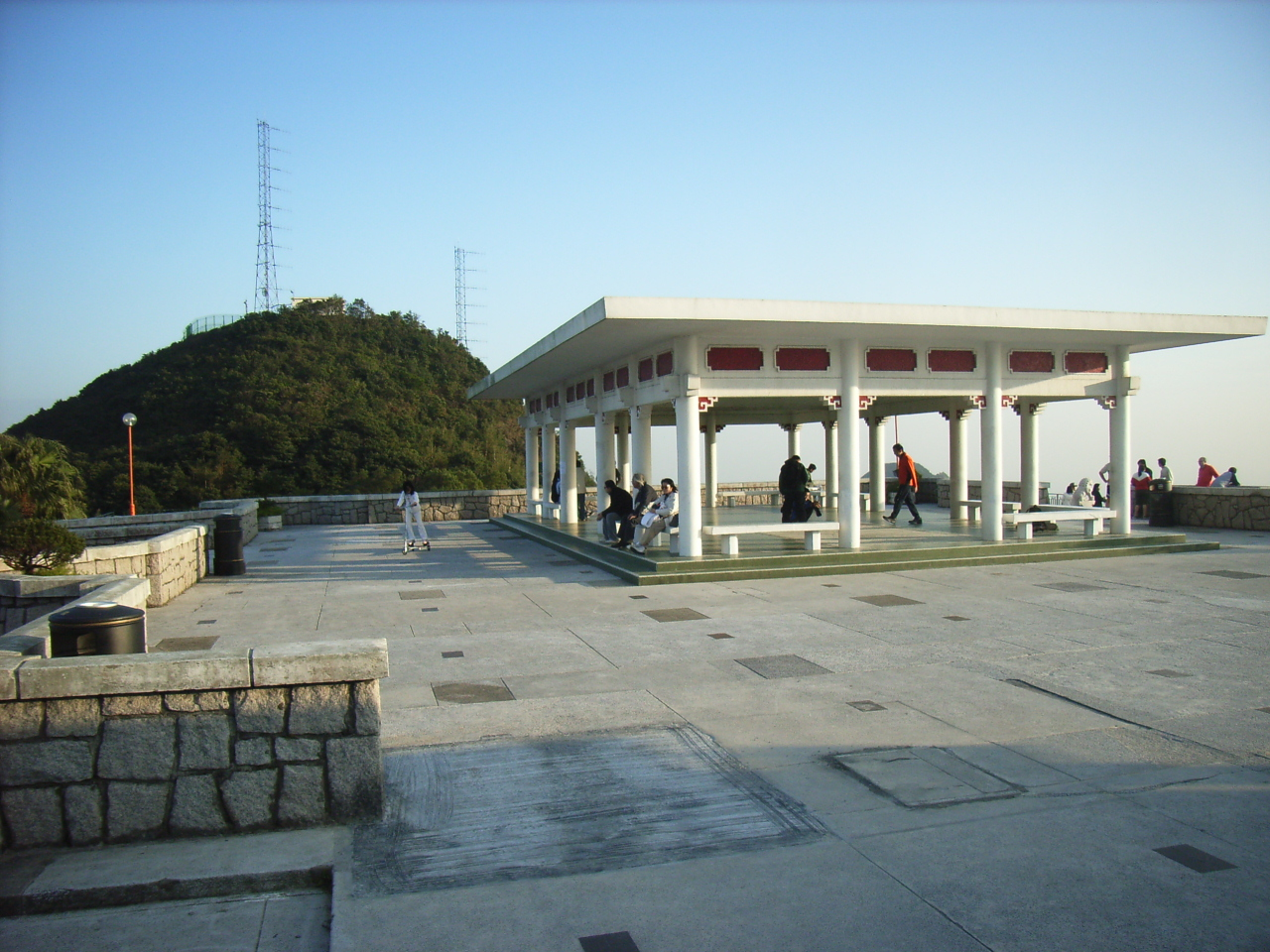 Victoria Peak Garden, Mount Austin Road, Victoria Peak, Hong Kong Photographer and author is ParkerStarS.